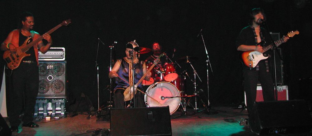 The band "Yat-Kha". Live at Brotfabrik in Frankfurt am Main, Germany, October 13, 2005. The photo is made by myself.